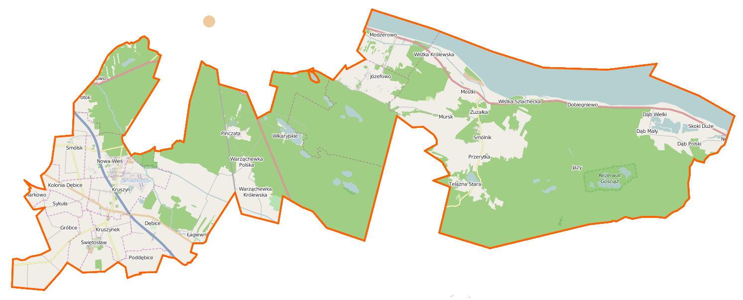 Map of Gmina Włocławek, Poland This map of Włocławek (gmina wiejska) was created from OpenStreetMap project data, collected by the community. This map may be incomplete, and may contain errors. Don't rely solely on it for navigation. Border coordinates52.659918.9202←↕→19.432452.5340